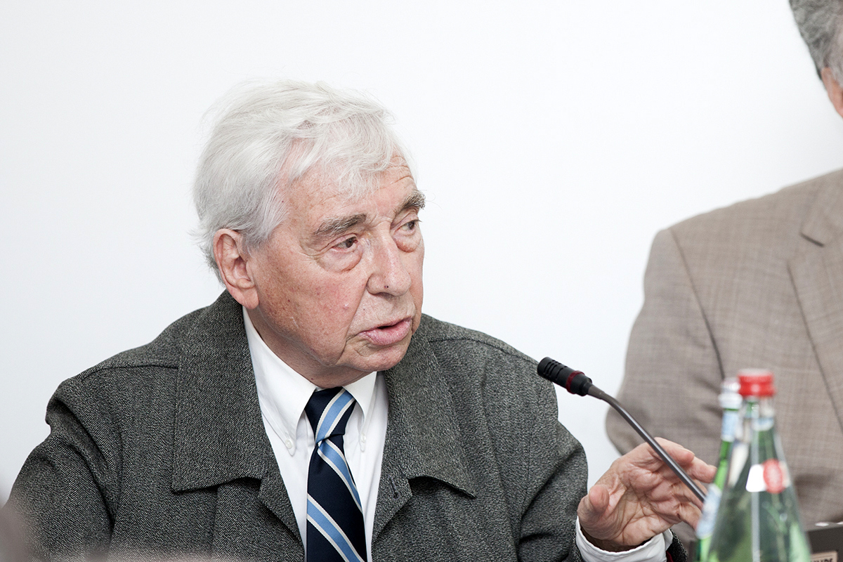 Arno J. Mayer speaks at the Luxembourg Institute for European and International Studies conference Arno J. Mayer – Critical Junctures in Modern History, 10-11 May 2013, Casino Luxembourg.